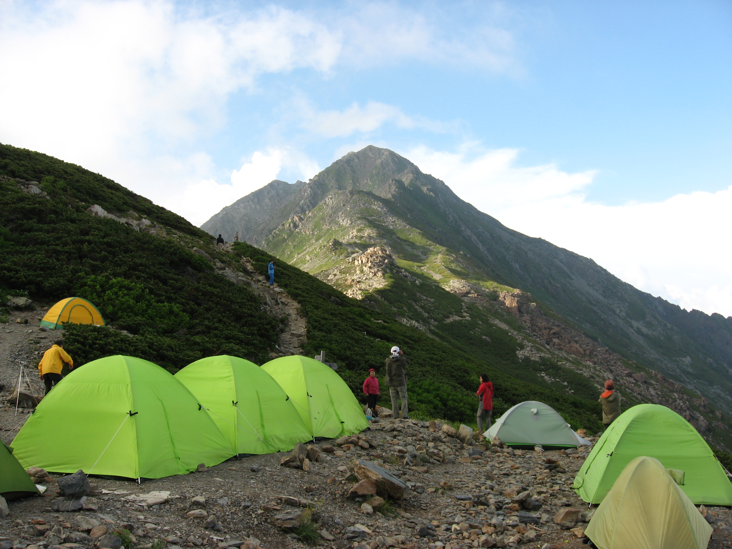 Mount Kita as seen from the camping site at Kitadake Sanso ("mount Kita Hut")